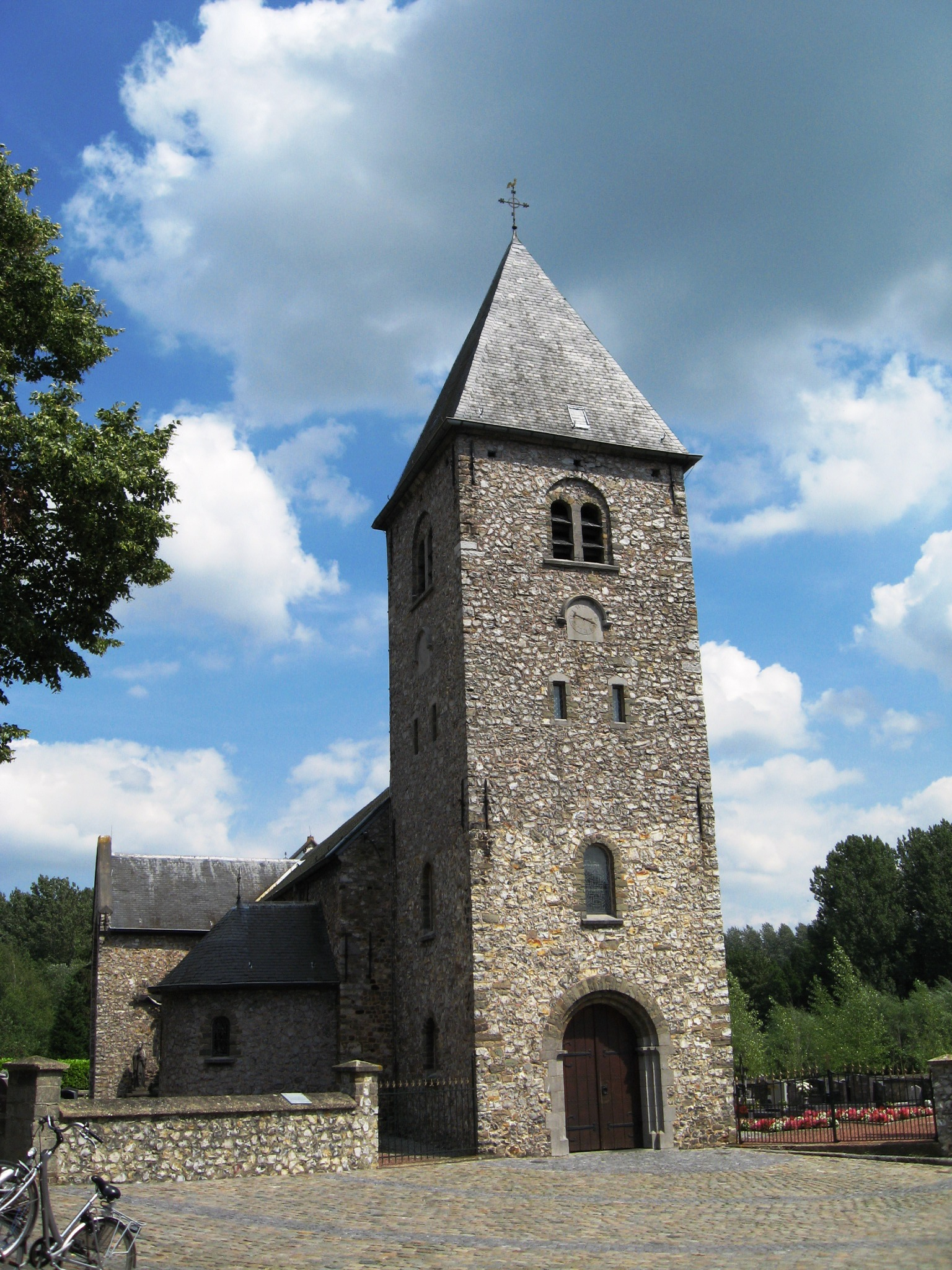 Church of Saint Peter in Chains in Wintershoven, Kortessem, Limburg, Belgium